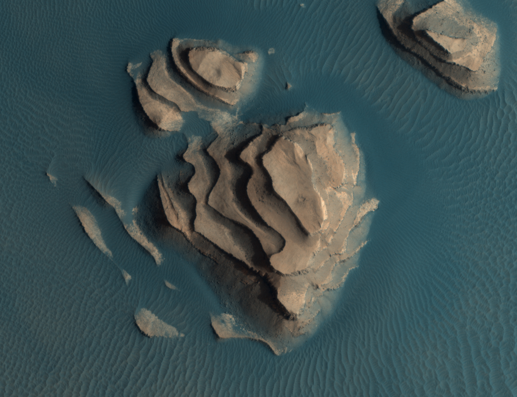 A terraced formation in Danielson crater photographed by the HiRISE instrument aboard Mars Reconnaissance Orbiter.